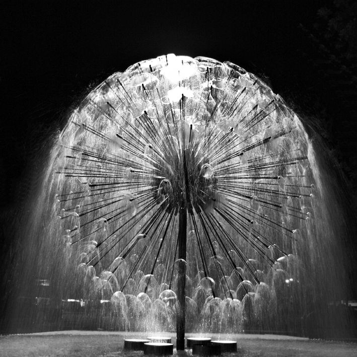 A night photo of El Alamein Fountain